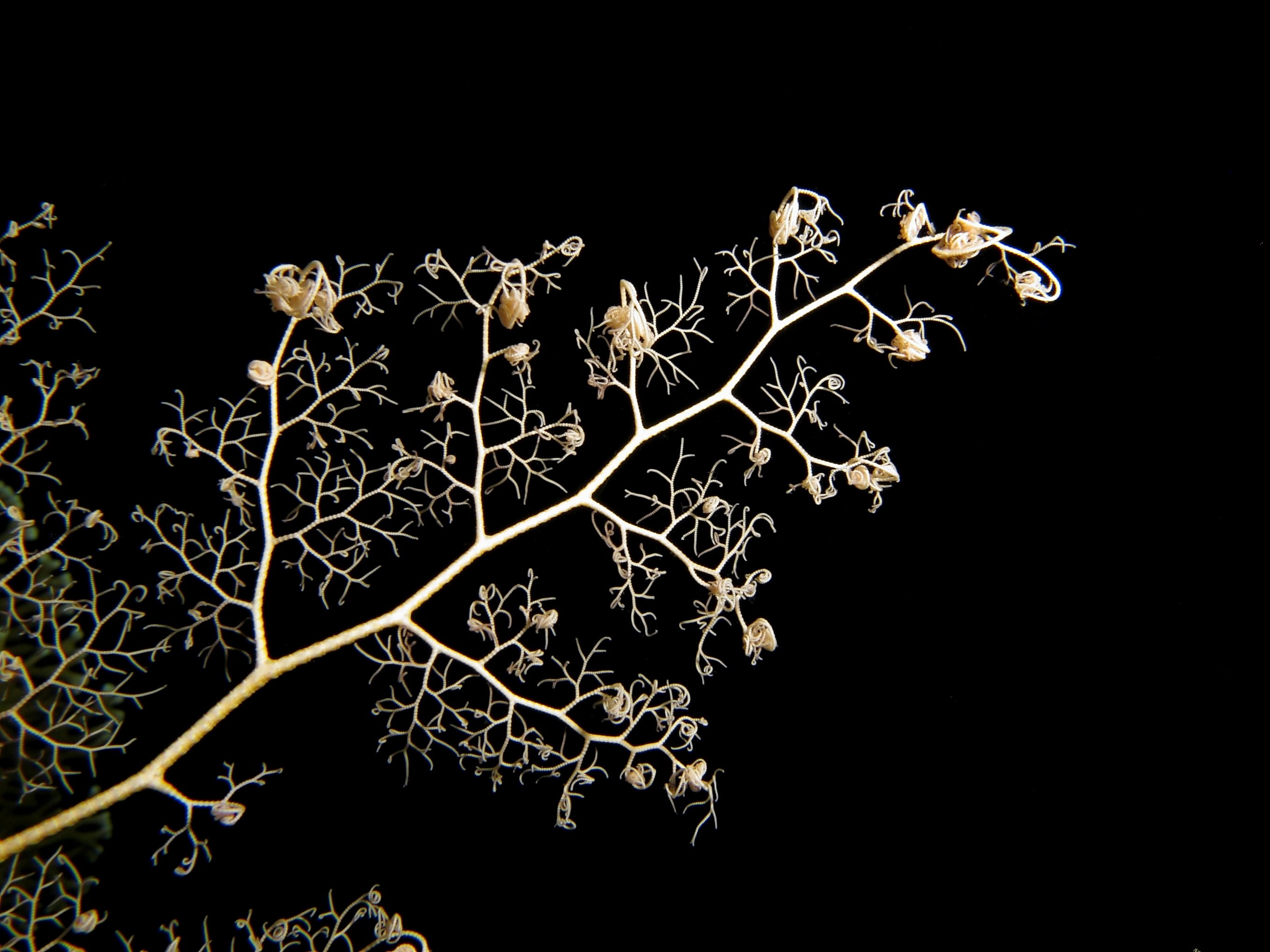 Close-up of basket star (Astroboa nuda) arm fragment in the Red Sea. One can see some smallest tentacles of the star are beginning to curl up because of the presence of a photographer.